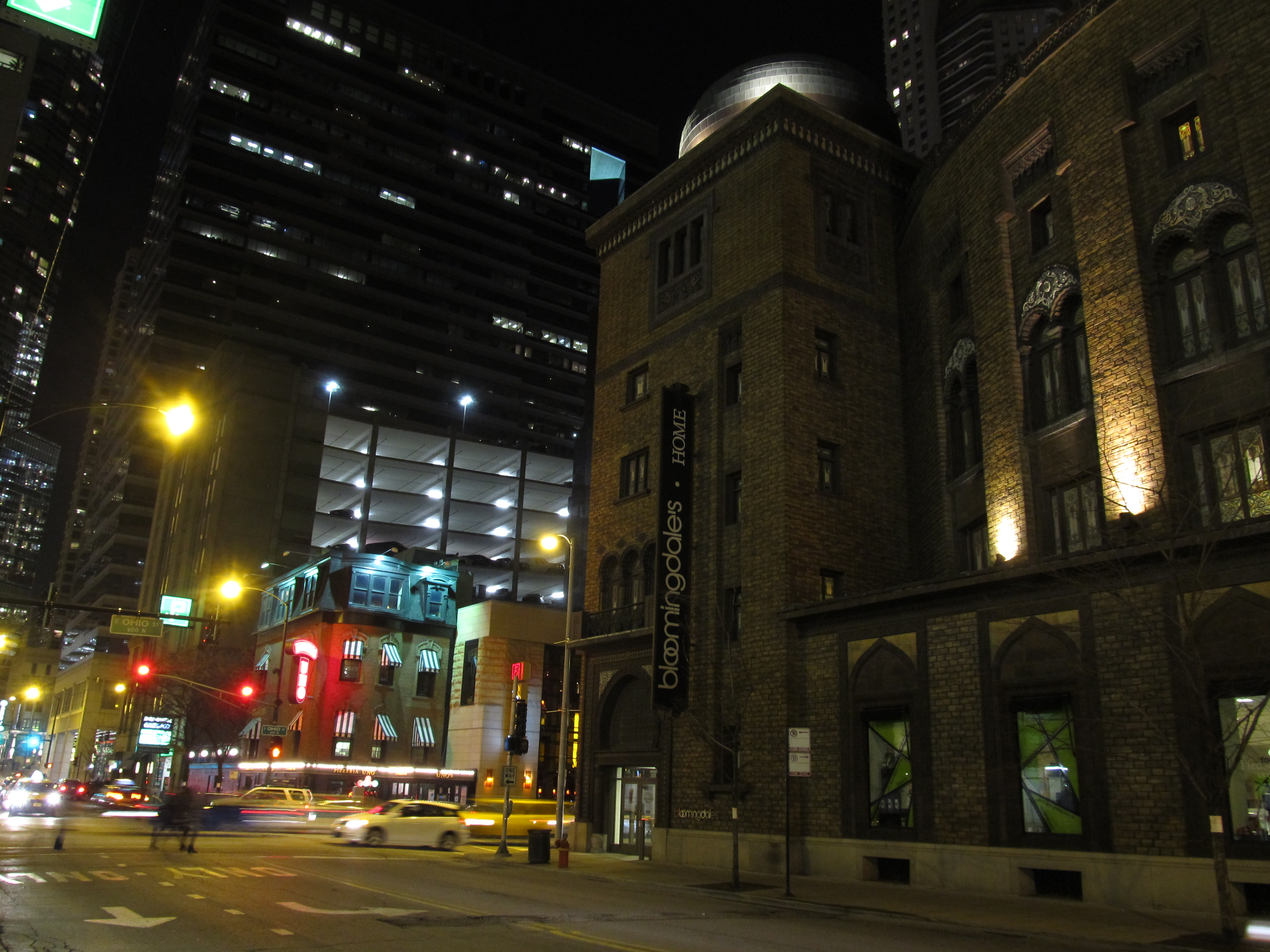 Built by the Shriners architects Huehl and Schmidt in 1912, the Medinah Temple is a colorful Islamic-looking building replete with pointed domes and an example of Moorish Revival architecture. It is located on the Near North Side of Chicago, Illinois at 600 N. Wabash Avenue, extending from Ohio Street to Ontario Street. The building originally housed an ornate auditorium seating approximately 4,200 on three levels. The stage floor extended a considerable distance into the auditorium, and the seating was arranged in a U-shape around it. The auditorium contained an Austin Organ Company pipe organ (opus no. 558), installed in 1915, with 92 ranks, a 5-manual fixed console and a 4-manual movable console (added in 1931). Among the many events that took place in this venue was the annual Shrine Circus. The fine acoustics of the Medinah Temple's auditorium made it a favorite site for recording. Many of the Chicago Symphony's most famous recordings from the late 1960s (for RCA with then-music director Jean Martinon) through the 1980s (for Decca with then-music director Sir Georg Solti) were recorded there. In 1998 the music soundtrack recording for the film Fantasia 2000 was filmed in the theater at Medinah Temple's auditorium. Beginning in late 2000 the exterior of the building was restored and the interior gutted and reconstructed for use as retail space. It was designated a Chicago Landmark on June 27, 2001. It is currently occupied by Bloomingdale's Home and Furniture Store, which opened in 2003.